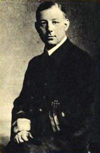 Photograph of Kapitanleutnant Johannes Feldkirchener, captain of U-17.